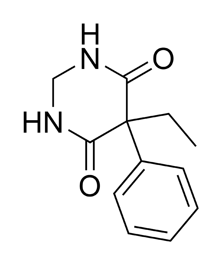 structure of Primidone